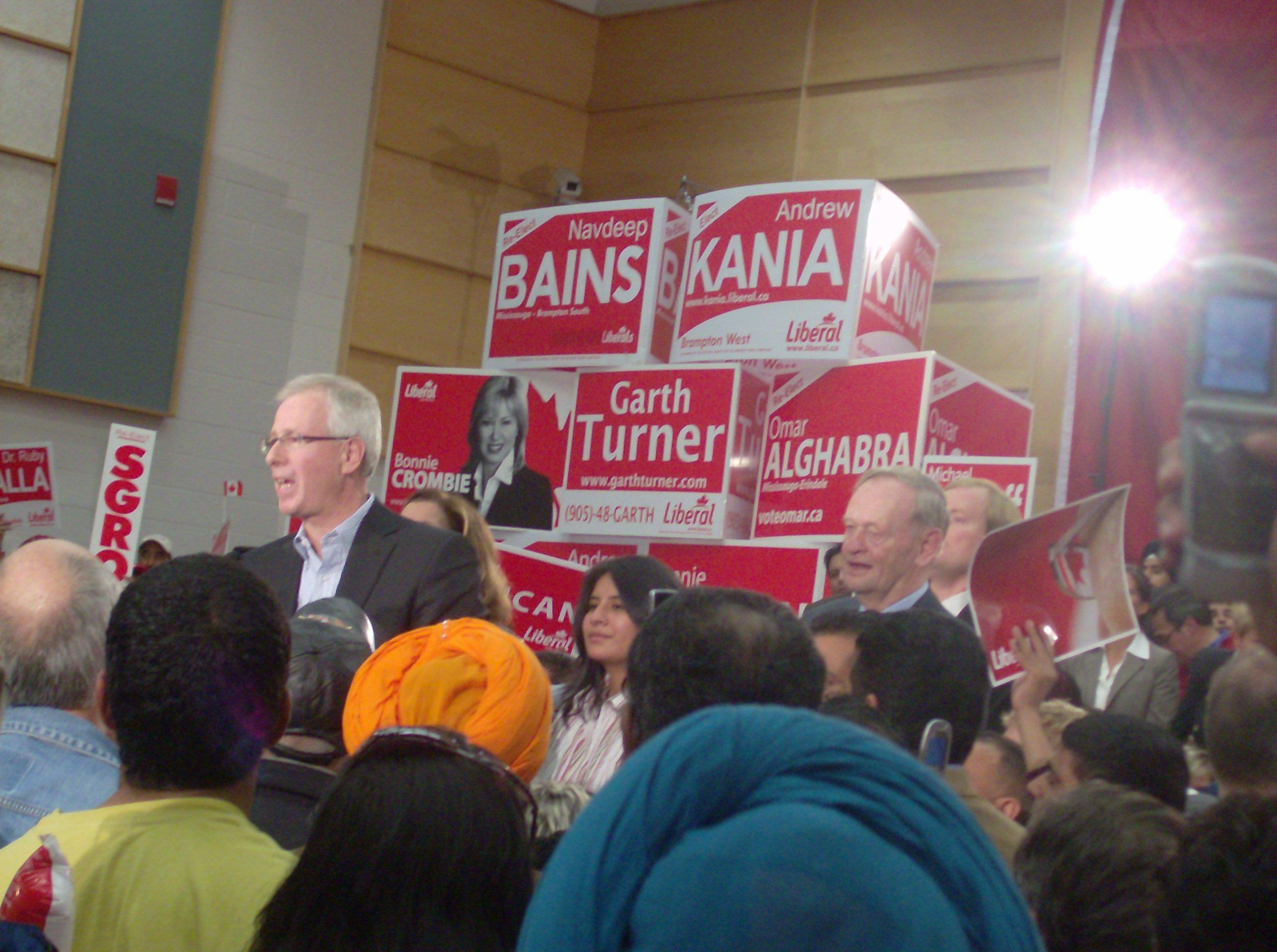 Stephane Dion, seen making a speech in Brampton, Ontario during the final days of the Canadian federal election, is set to step down as leader of the Liberal Party of Canada, after his party lost multiple seats in the House of Commons.